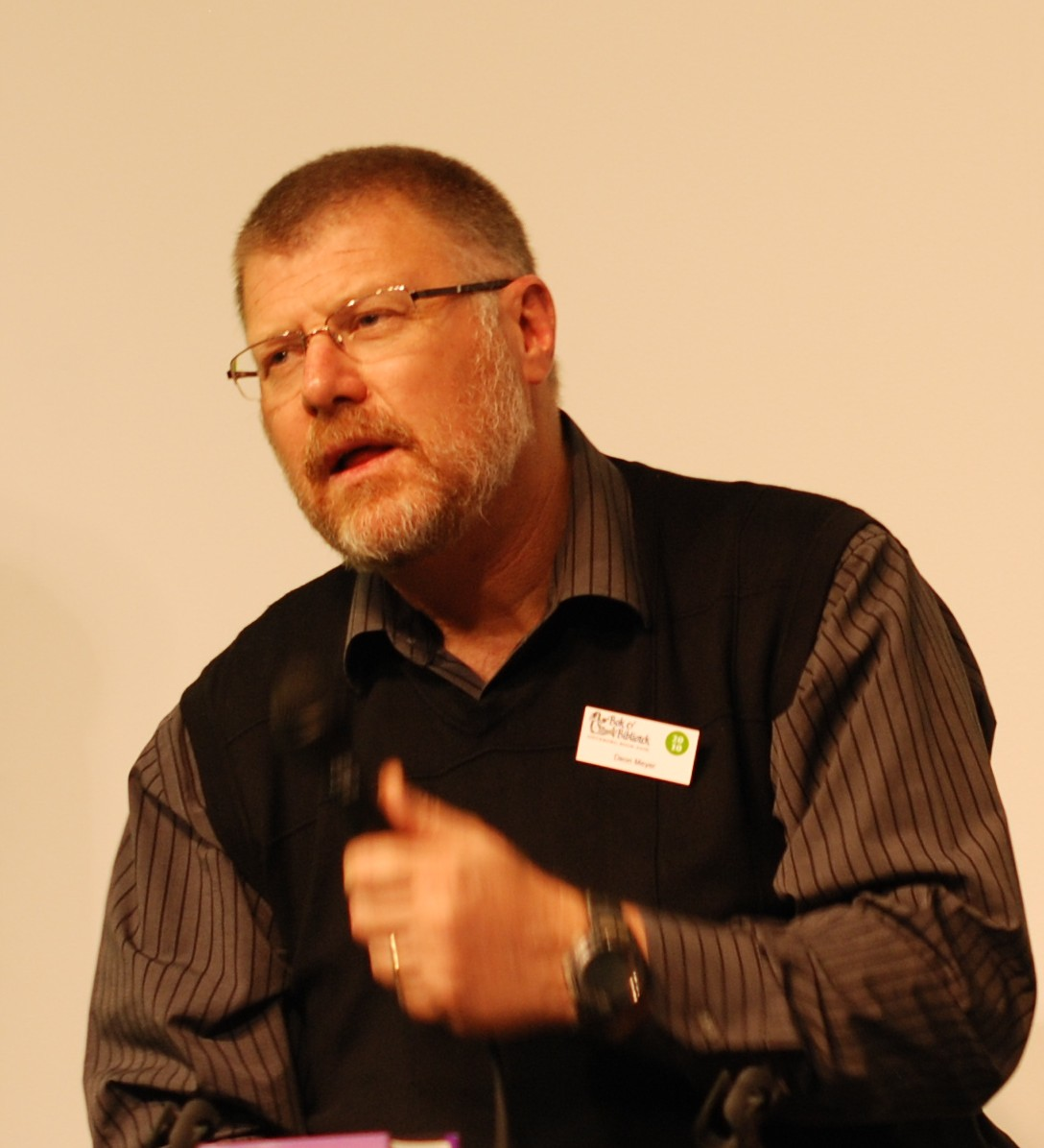 South African writer Deon Meyer at the Göteborg Book Fair 2010